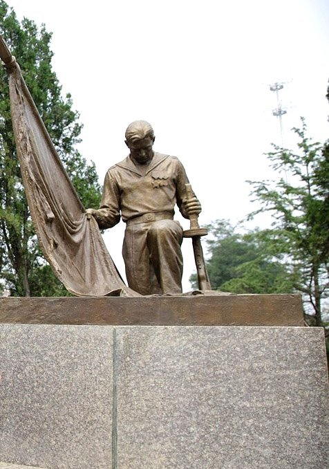 中文（香港）: Dmitry Medvedev at Lushun Russian Military Cemetery